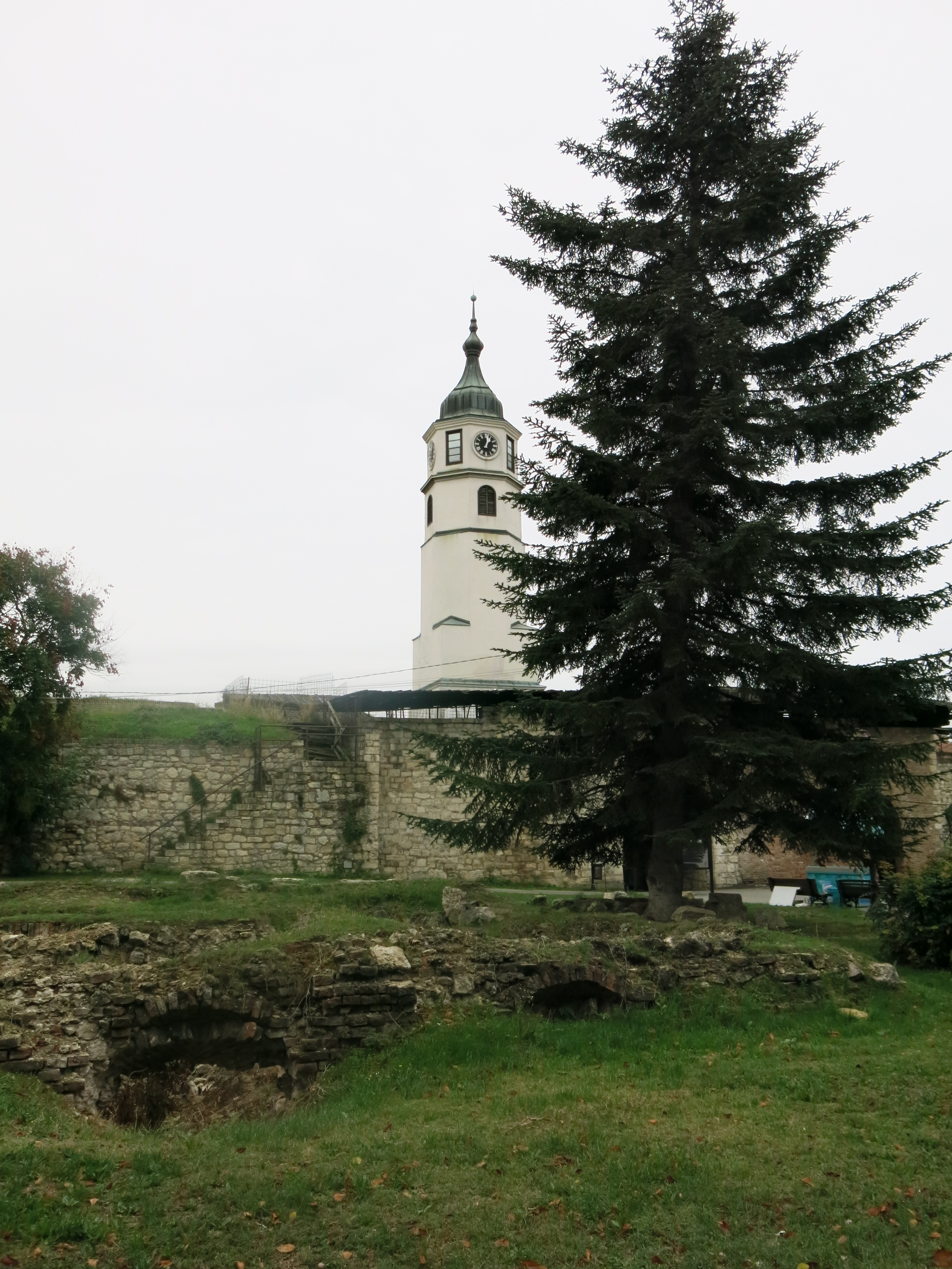 Belgrade Fortress consists of the old citadel (Upper and Lower Town) and Kalemegdan Park (Large and Little Kalemegdan) on the confluence of the River Sava and Danube, in an urban area of modern Belgrade, the capital of Serbia. It is located in Belgrade's municipality of Stari Grad. Belgrade Fortress was declared a Monument of Culture of Exceptional Importance in 1979, and is protected by the Republic of Serbia. It is the most visited tourist attraction in Belgrade, with Skadarlija being the second. Since the admission is free, it is estimated that the total number of visitors (foreign, domestic, citizens of Belgrade) is over 2 million yearly.